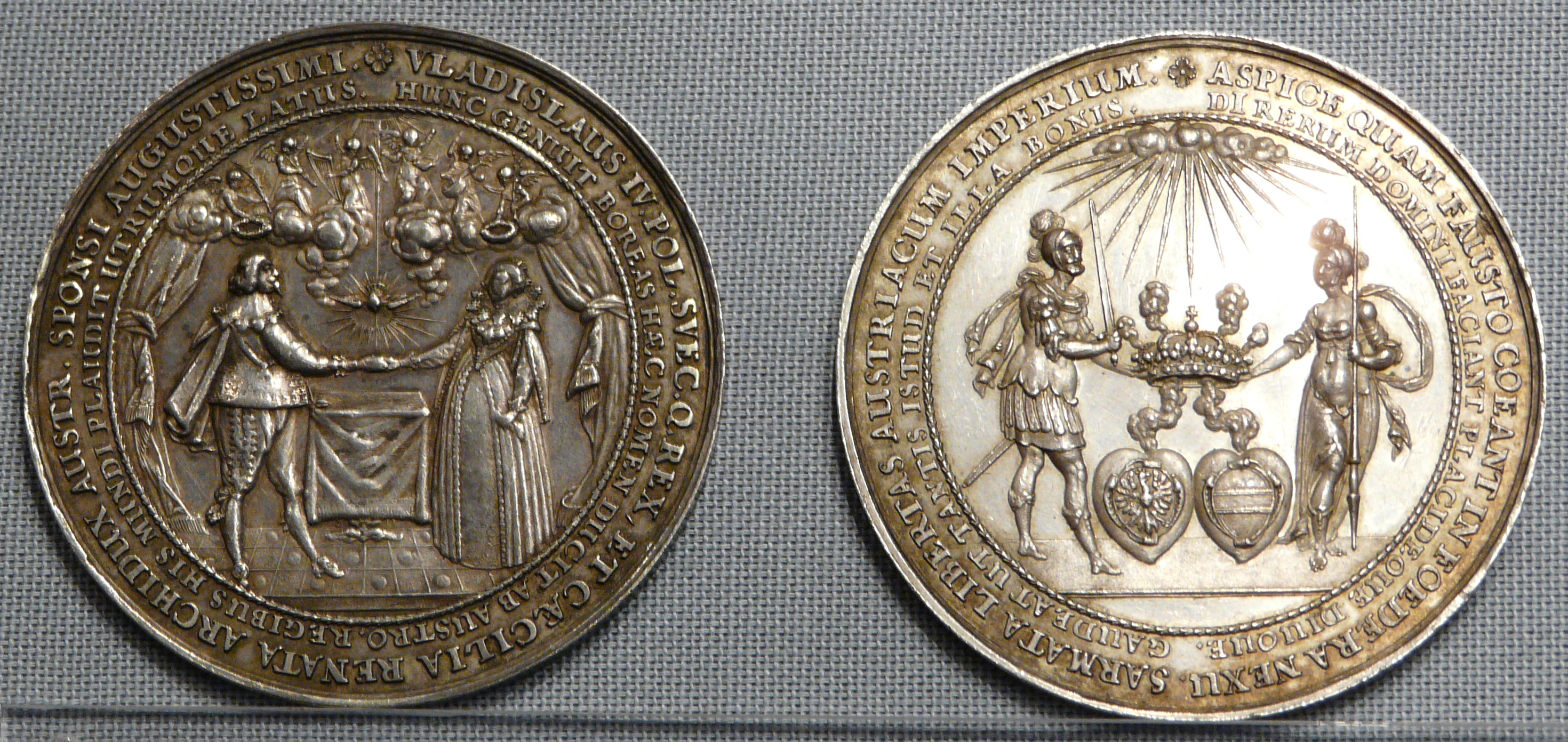 From the collection of the National Museum in Poznań. Medals commemorating mariage between Cecilia Renata of Austria and Wladislaus IV of Poland.